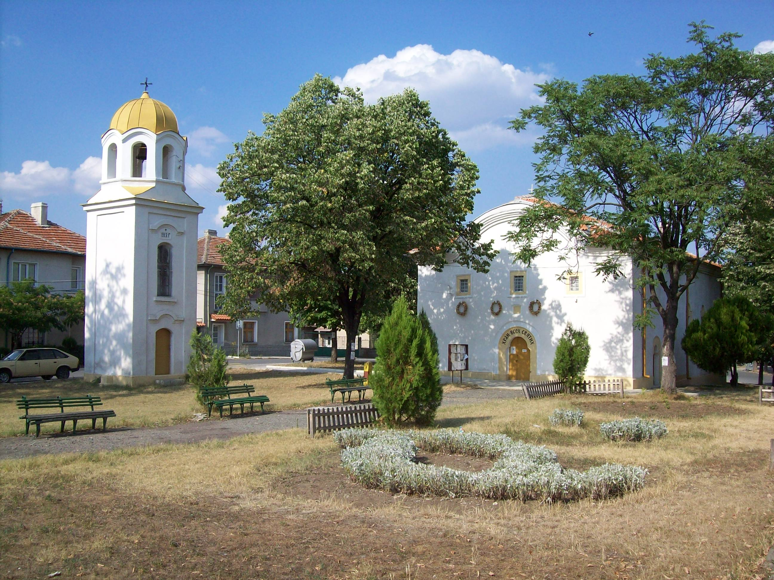 All Saints Church-Sredets